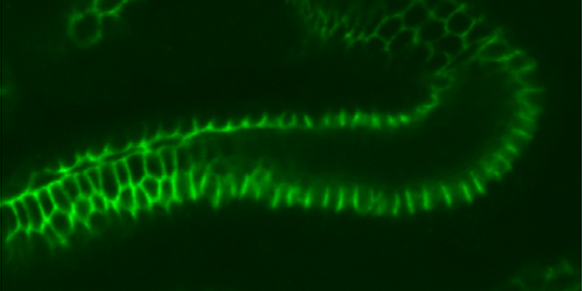 Antibody staining of a Drosophila melanogaster wildtype embryo in stage 16 with an anti-Claudin antibody. The hindgut epithelium is shown. own work.